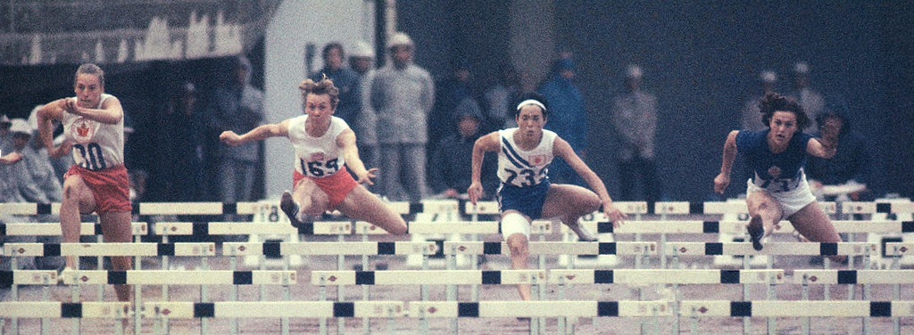 Jenny Meldrum, Teresa Ciepły, Ikuko Yoda and Draga Stamejčič in a 80 m preliminary at the 1964 Olympics